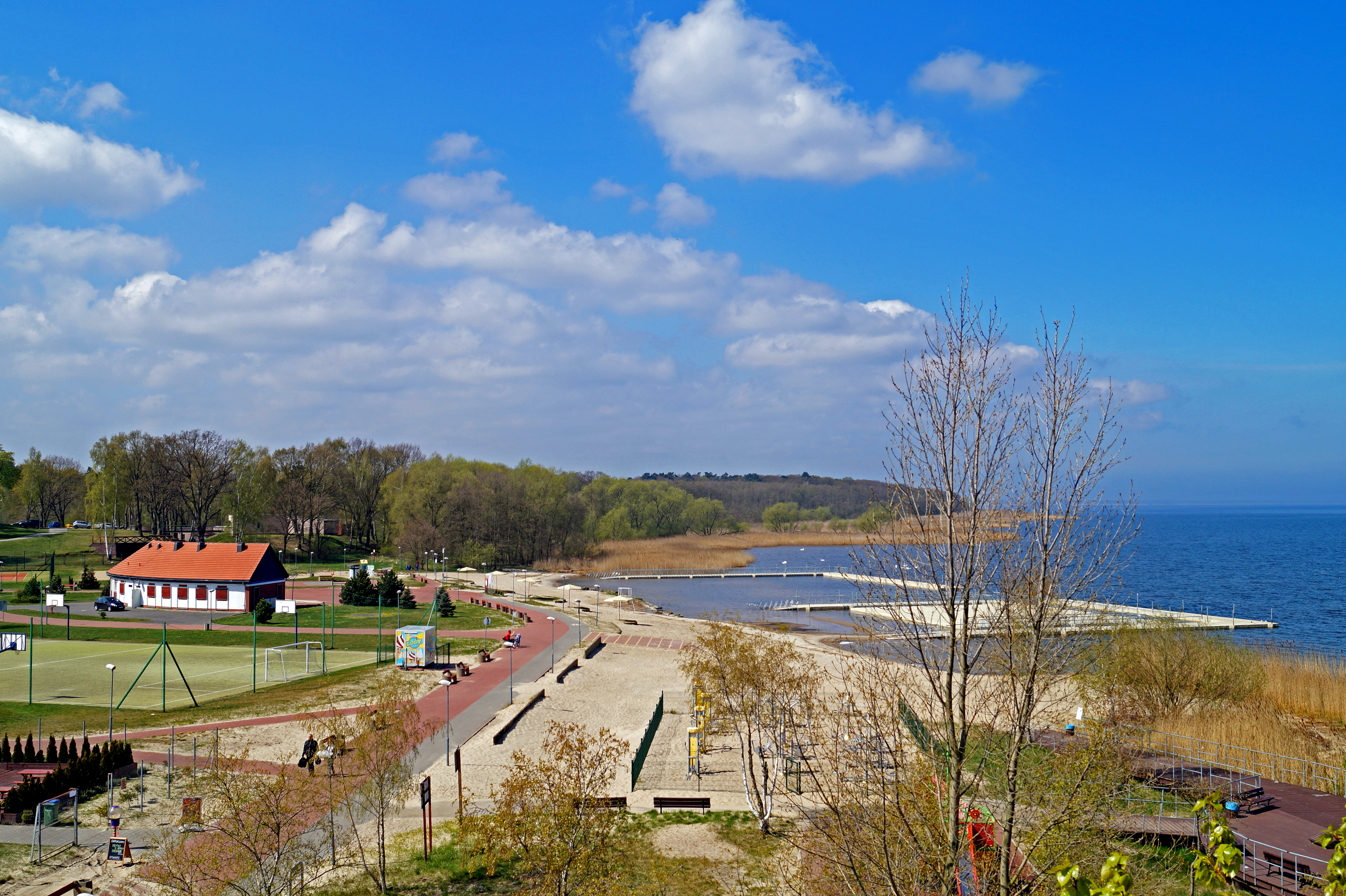 Beach & Promenade, Trzebiez, Poland